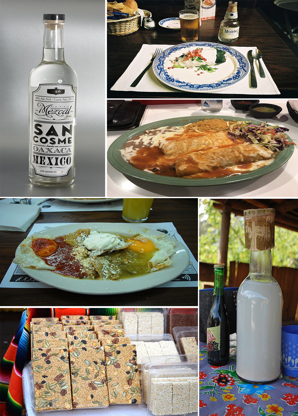 Collage with mexican gastronomy